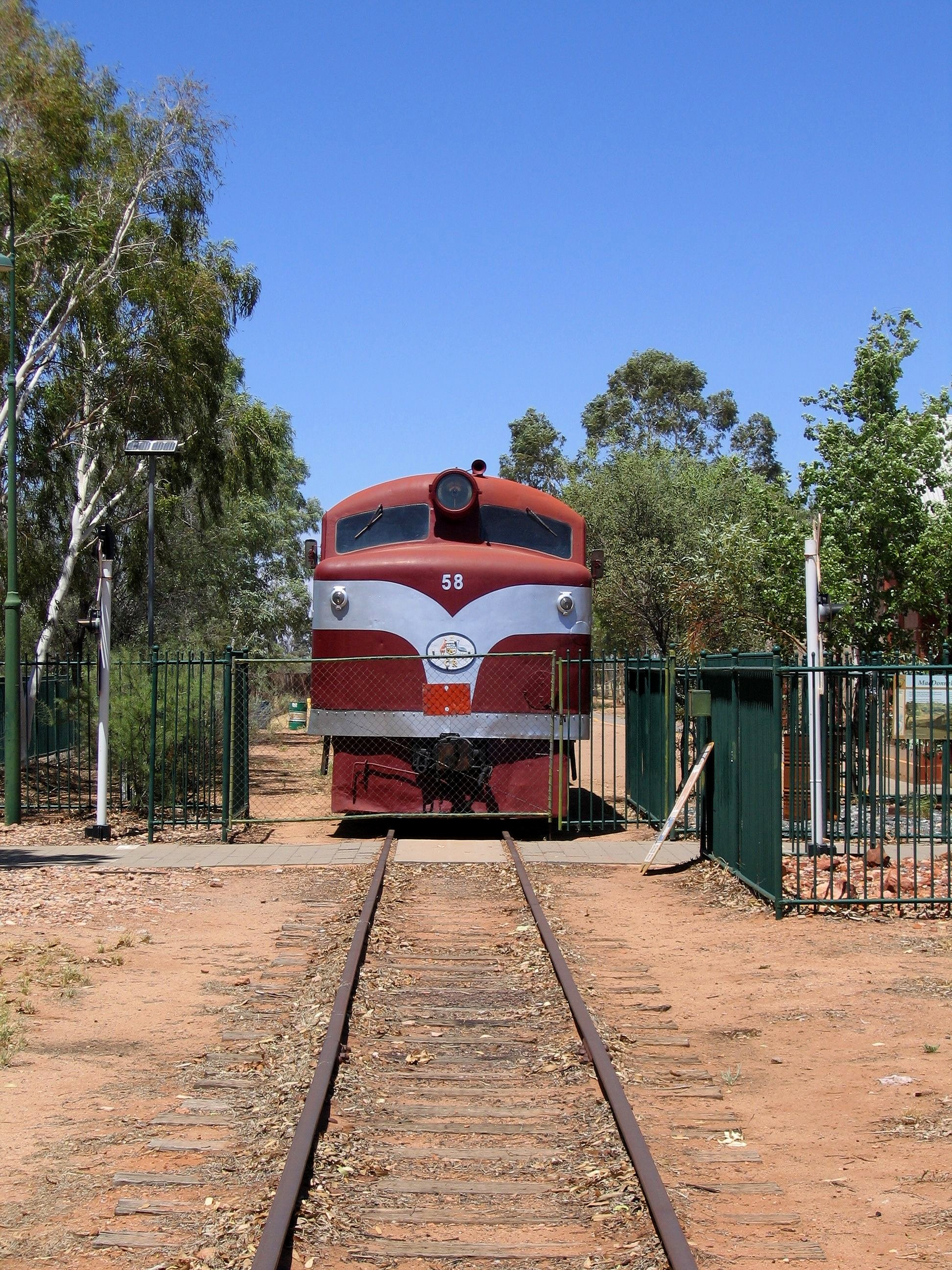 Preserved ex-Commonwealth Railways NSU class diesel-electric locomotive NSU58 at the Old Ghan Heritage Railway and Museum, Alice Springs, Northern Territory, Australia